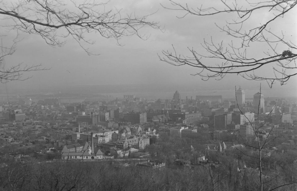 We find a general view of the city of Montreal taken from the Mount Royal promontory.